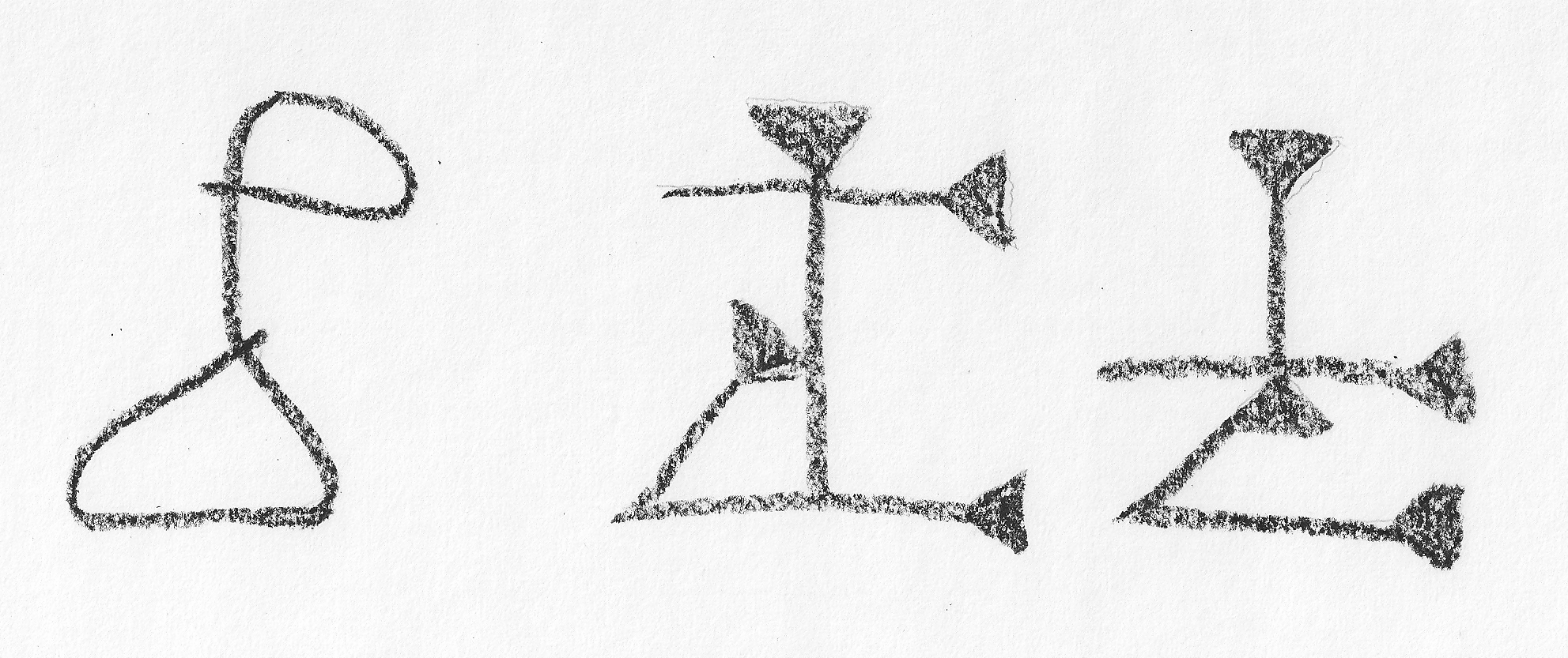 Shows changes in Mesopotamian writing of the word bird.